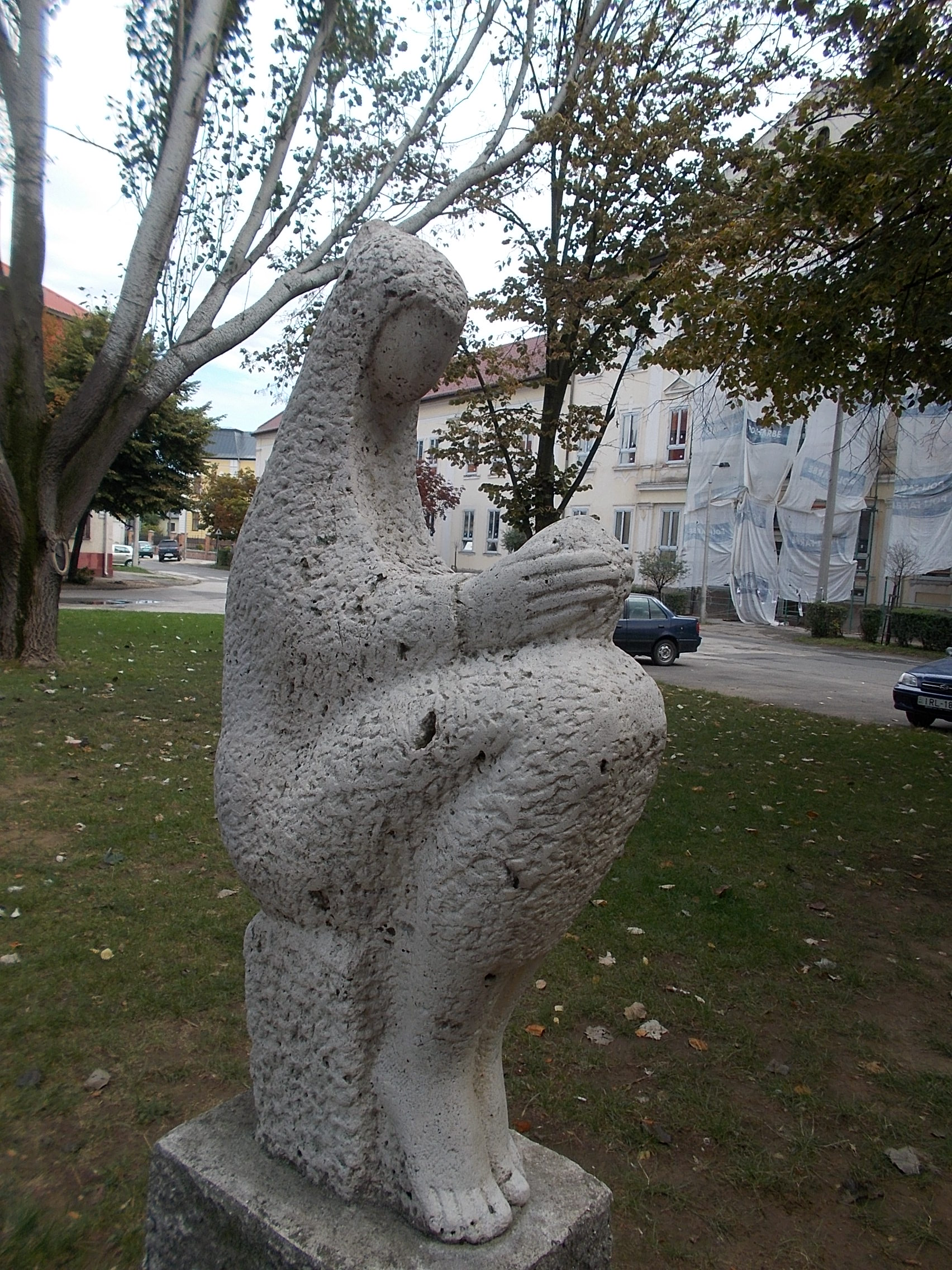 Seating woman with child by Lajos Papi (1969 limestone) - Flórián Square,, Kisvárda, Szabolcs-Szatmár-Bereg County, Hungary.